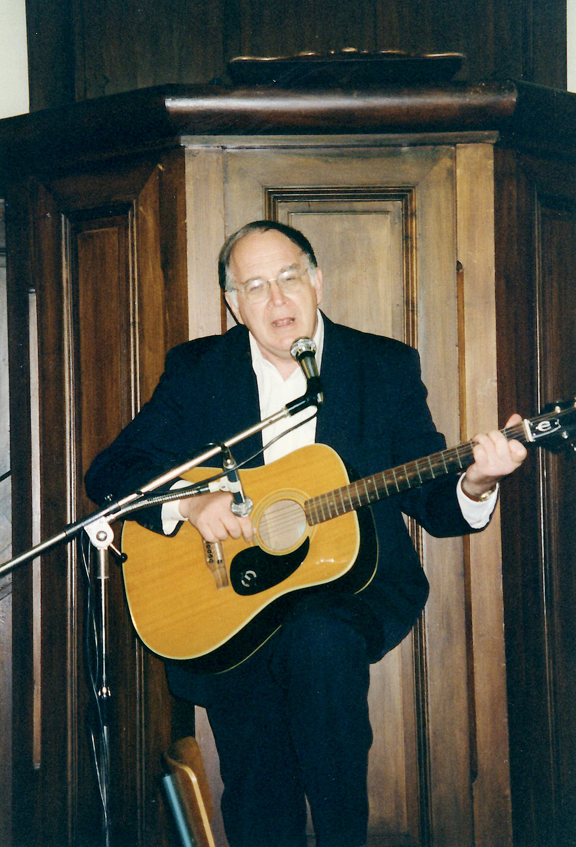 Le pasteur Jean-Louis Decker en concert au temple de Tournon (Ardèche), le mercredi 14 octobre 1998, dans le cadre de sa Tournée Foi et tolérance, à l’occasion du 400e anniversaire de l’Edit de Nantes.